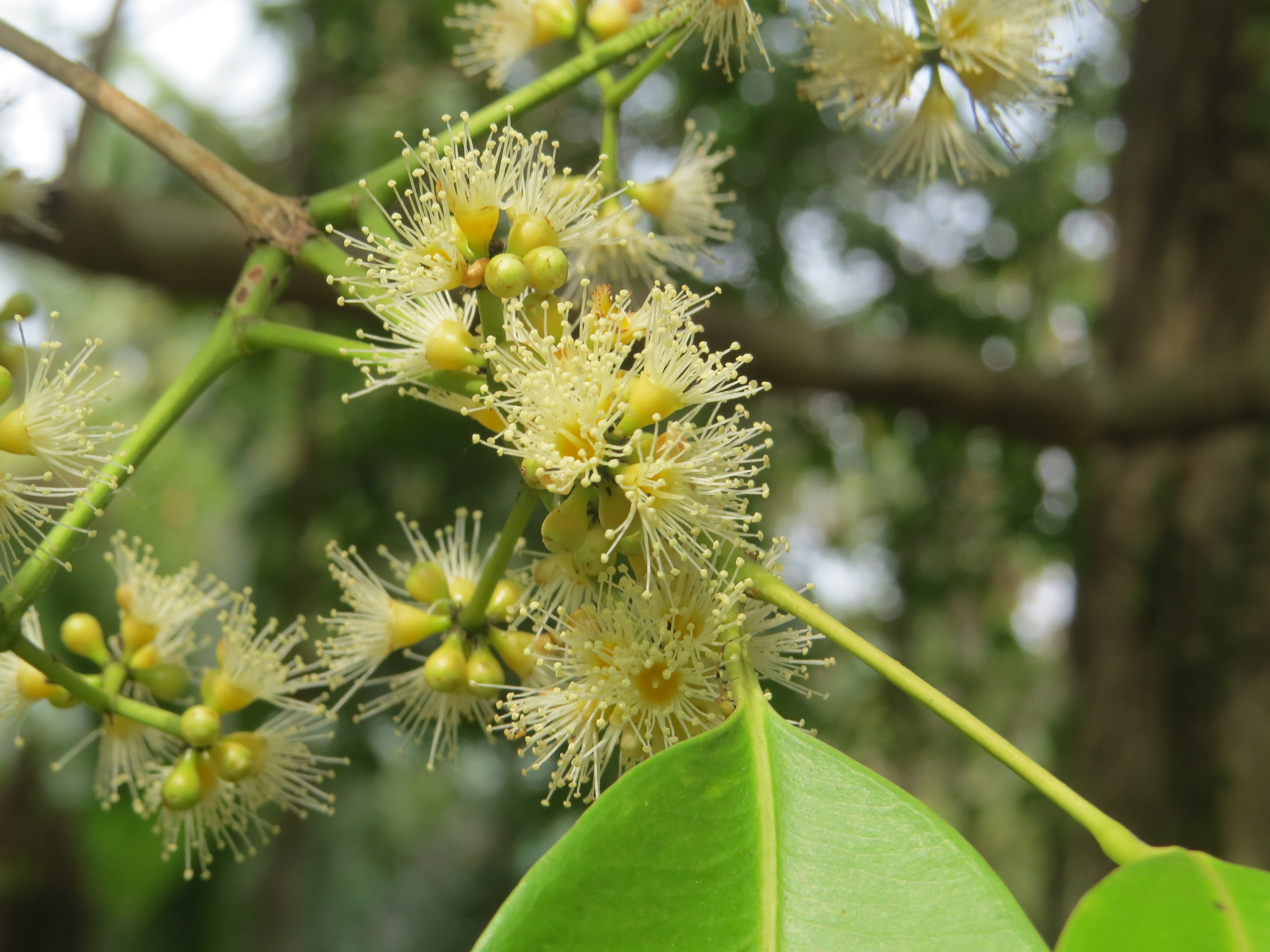 Photos taken during the 2016 Bird Survey at Kottiyoor Wildlife Sanctuary